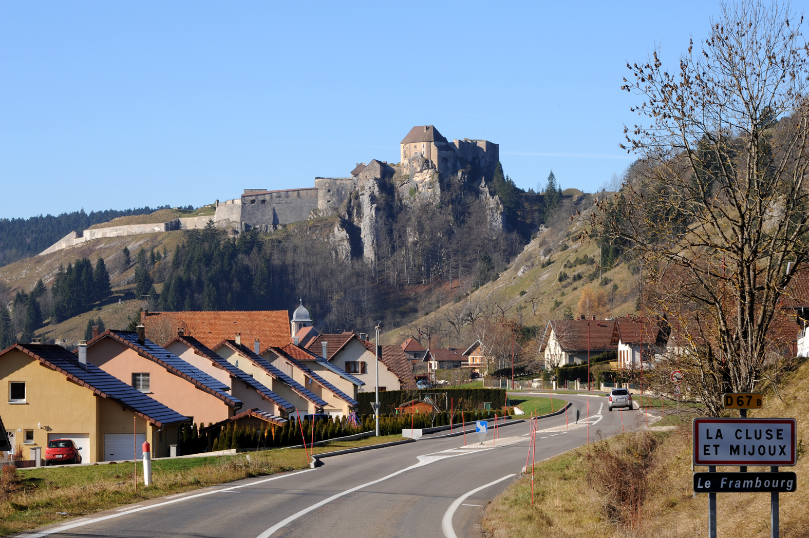 La Cluse-et-Mijoux et Château de Joux; Doubs, Franche-Comté.